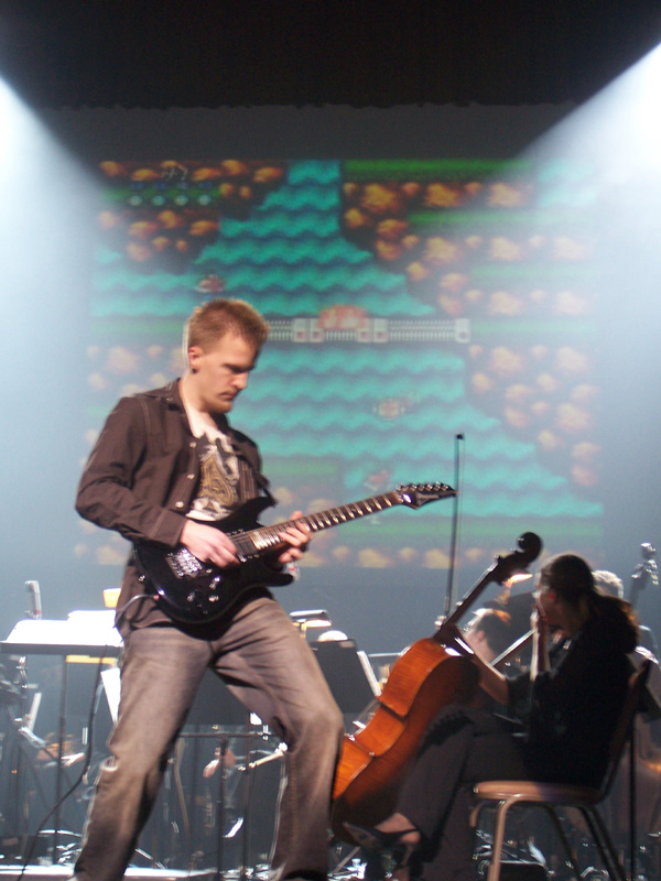 Chris Kline performing Contra: Jungle Jam at Video Games Live, Game Developers Conference 2007.